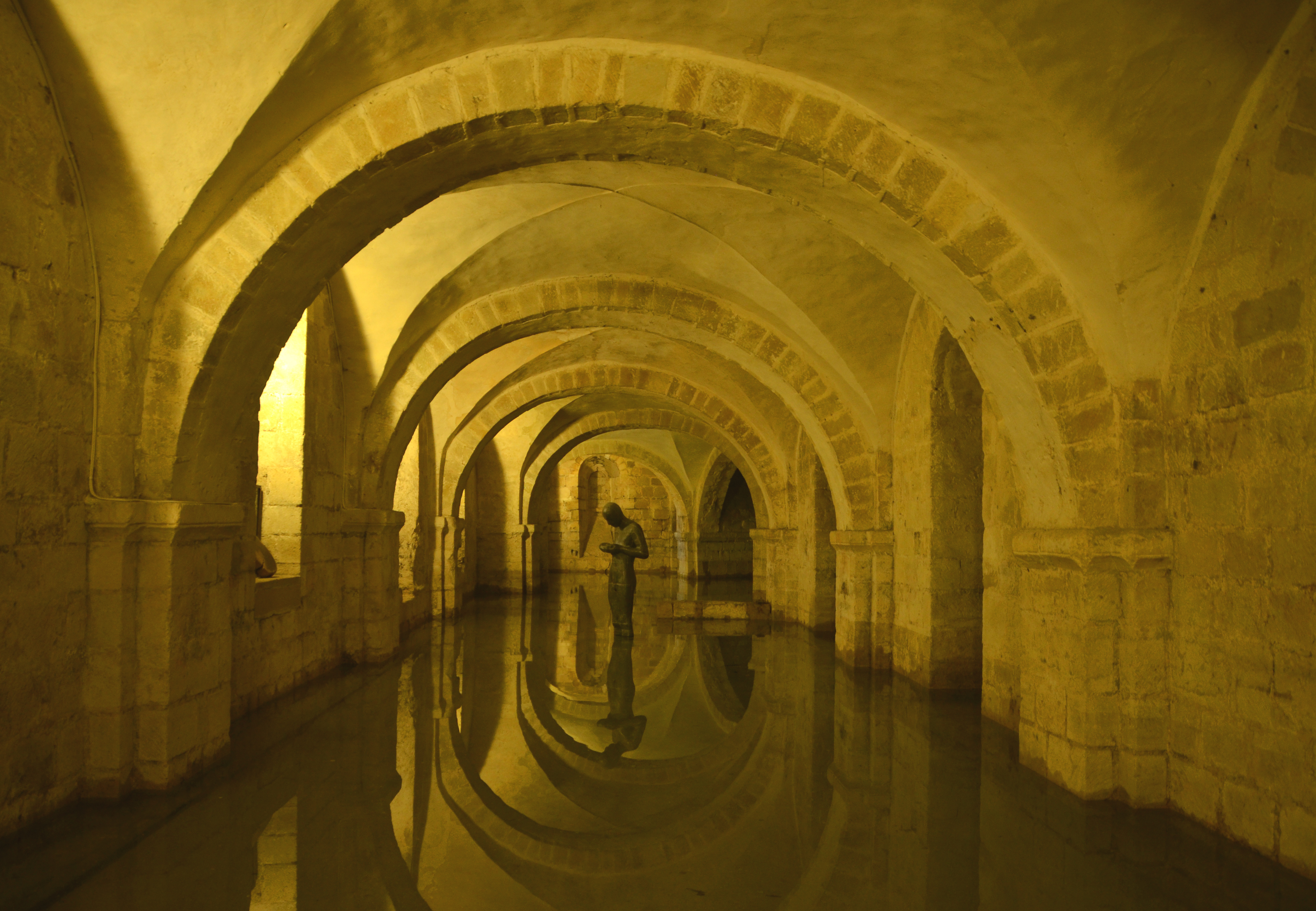 Anthony Gormley Sculpture at Winchester Cathedral